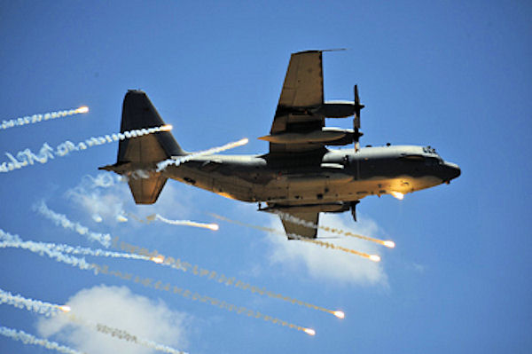 16th Special Operations Squadron AC-130 Hercules Gunship